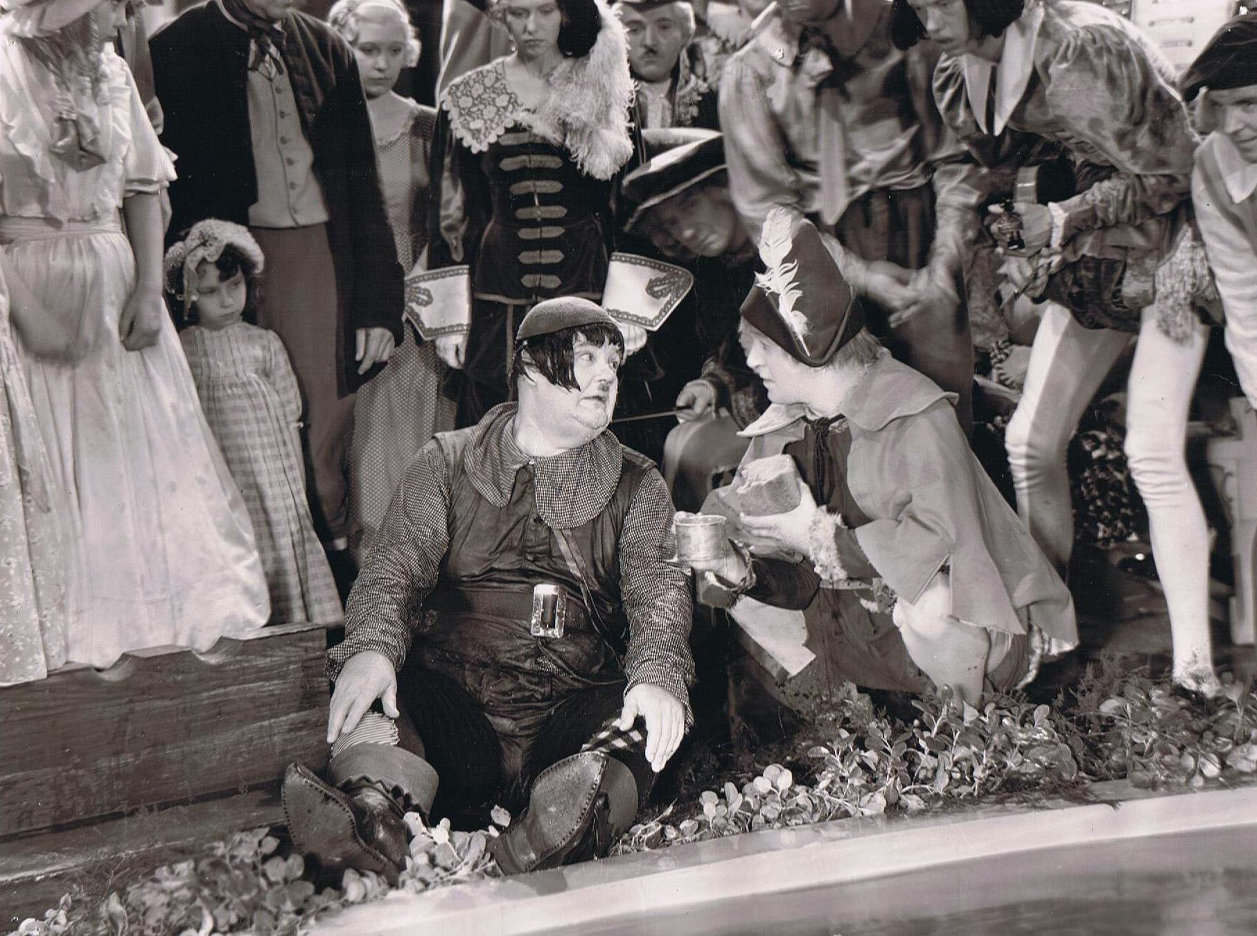 Publicity still from the Laurel and Hardy film "Babes in Toyland" (1934), later reissued under the title "March of the Wooden Soldiers".